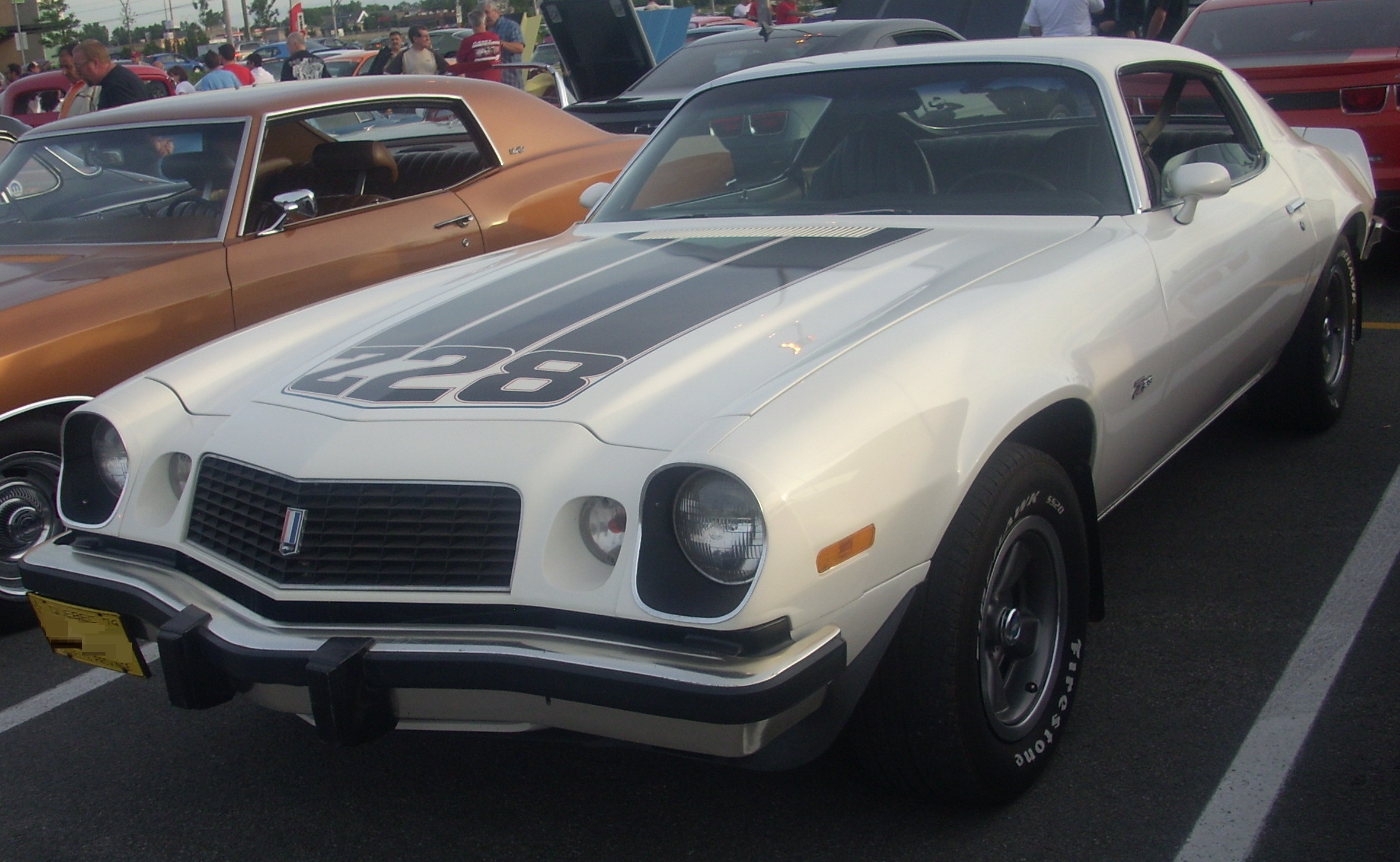 1974 Chevrolet Camaro photographed in Laval, Quebec, Canada at Centropolis Laval.